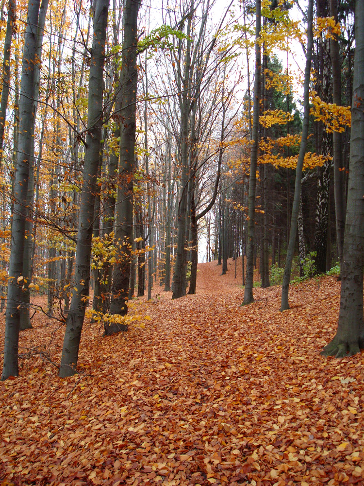 National M. M. Grishko botanical garden (Kiev, Ukraine), “The Ukrainian Carpathians”